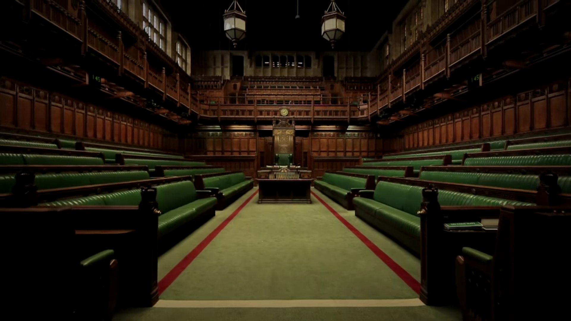 Chamber of the House of Commons